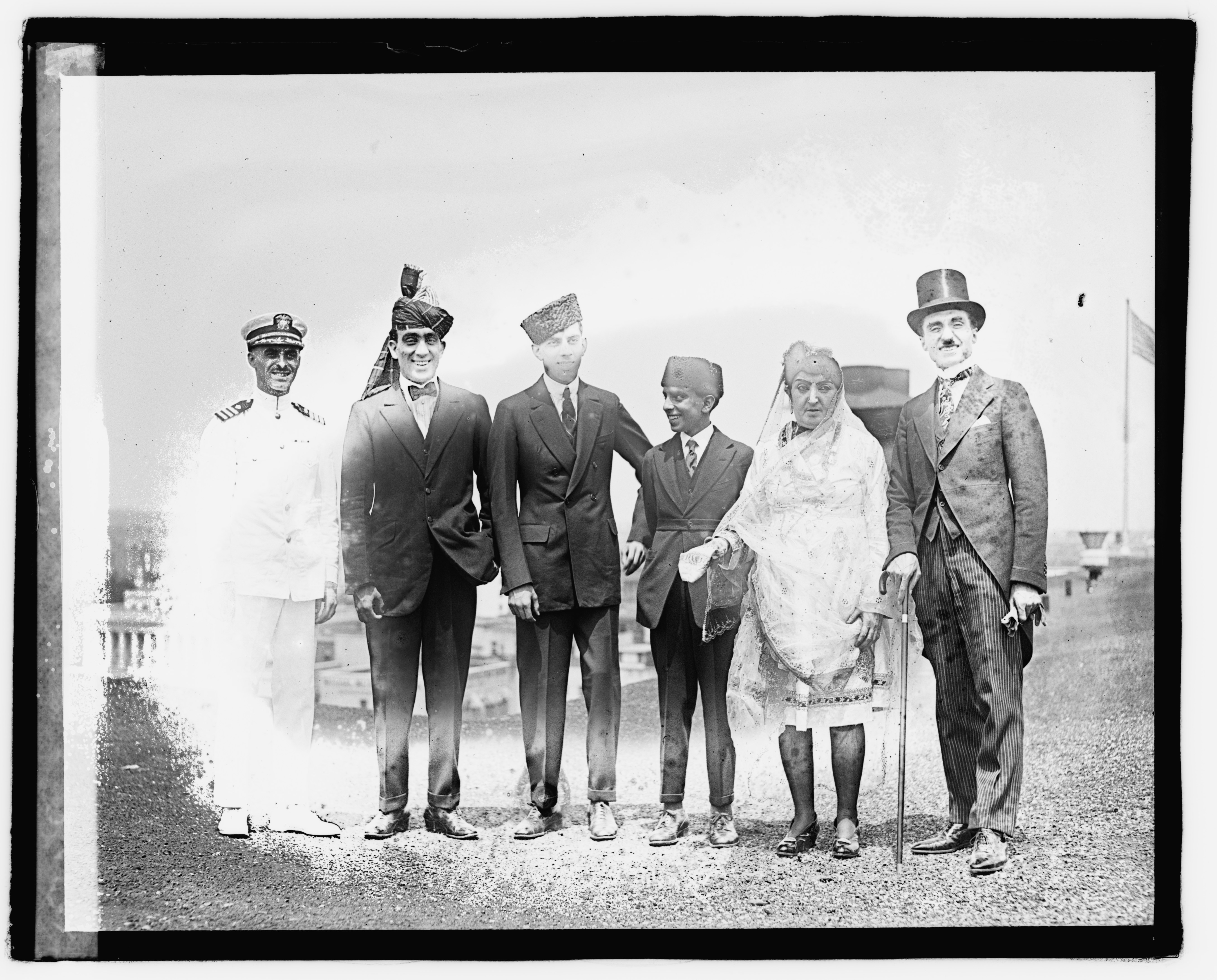 Title: Stanley Clifford Weyman (noted imposter), the three sons of Princess Fatima Sultana of Afghanistan, Princess Fatima, and Prince Zerdechene of Millan in Washington, D.C., during a visit to see President Harding Abstract/medium: National Photo Company Collection (Library of Congress) Physical description: 1 negative